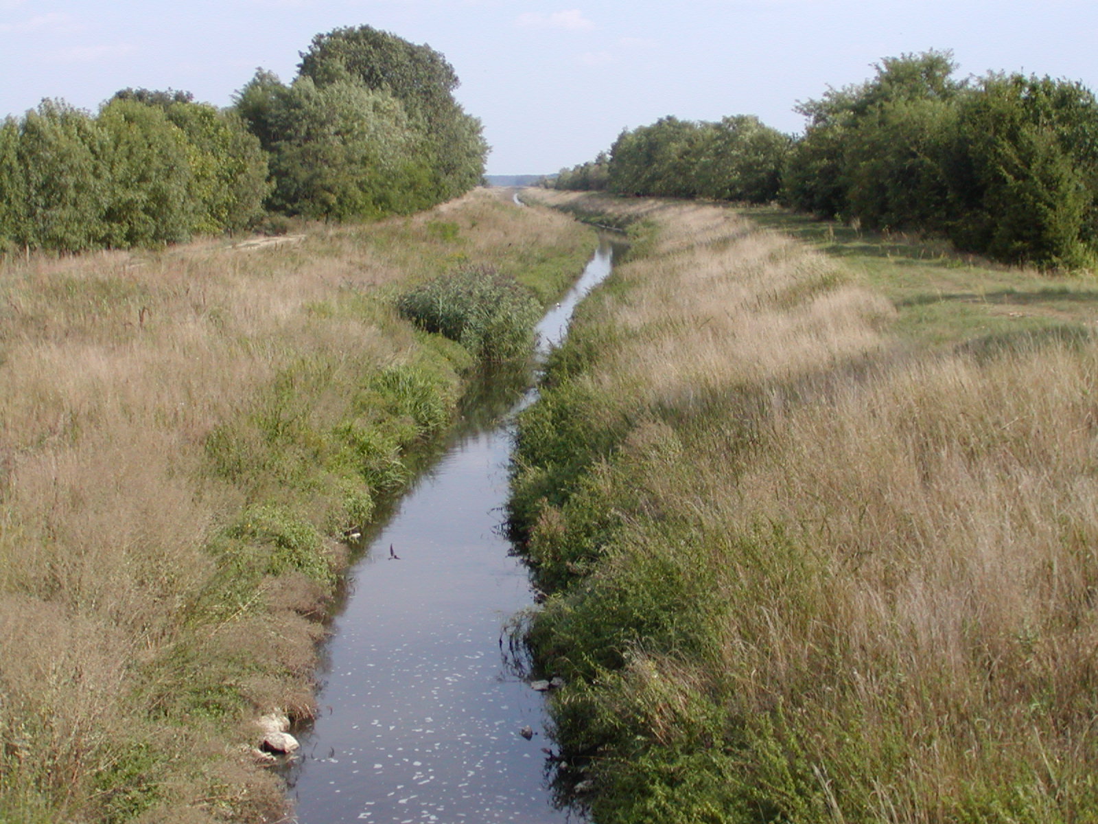 Artificial riverbed of Ledava River near the village of Renkovci during the drought of summer 2003